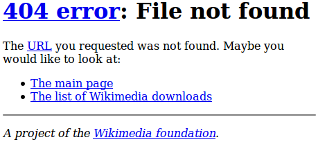 Error retrieved from the server for some files which are lost?